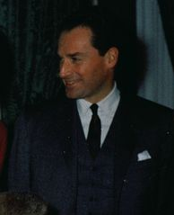 Joseph Pulitzer Jr. at First Lady Jacqueline Kennedy's tea for the Special Committee for White House Paintings. Green Room, White House, Washington, D.C.